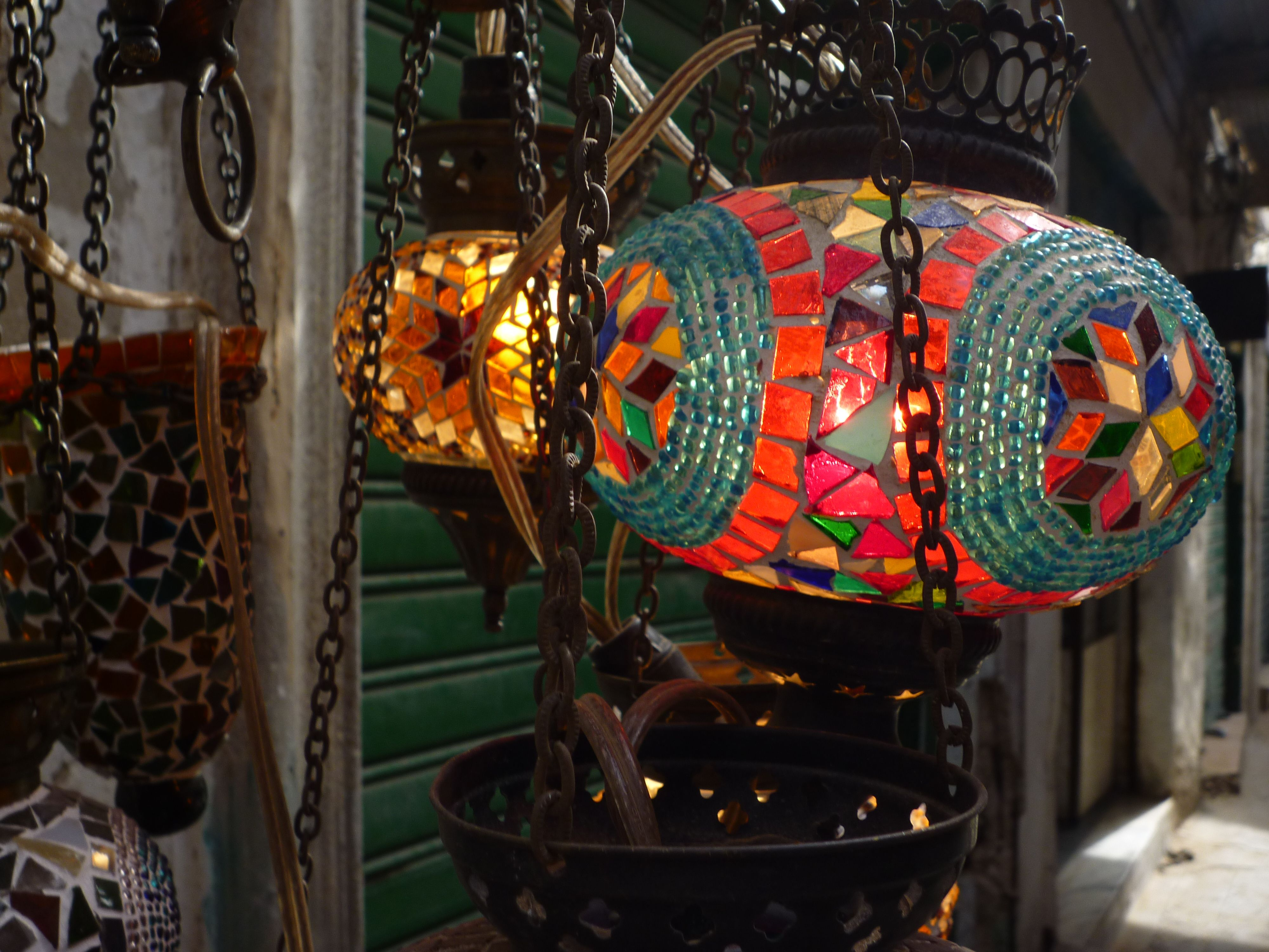 The Medina in 'Tripoli Old Town'